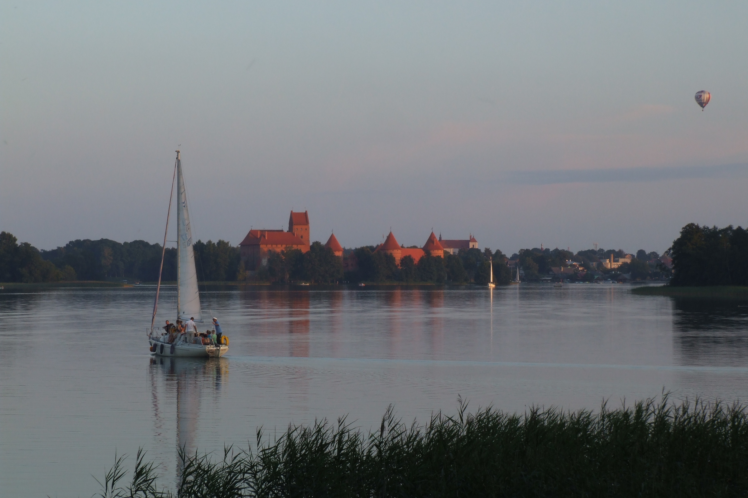 Lake Galvė (Lithuania) and castle in Trakai - view from Totoriškės (camping)